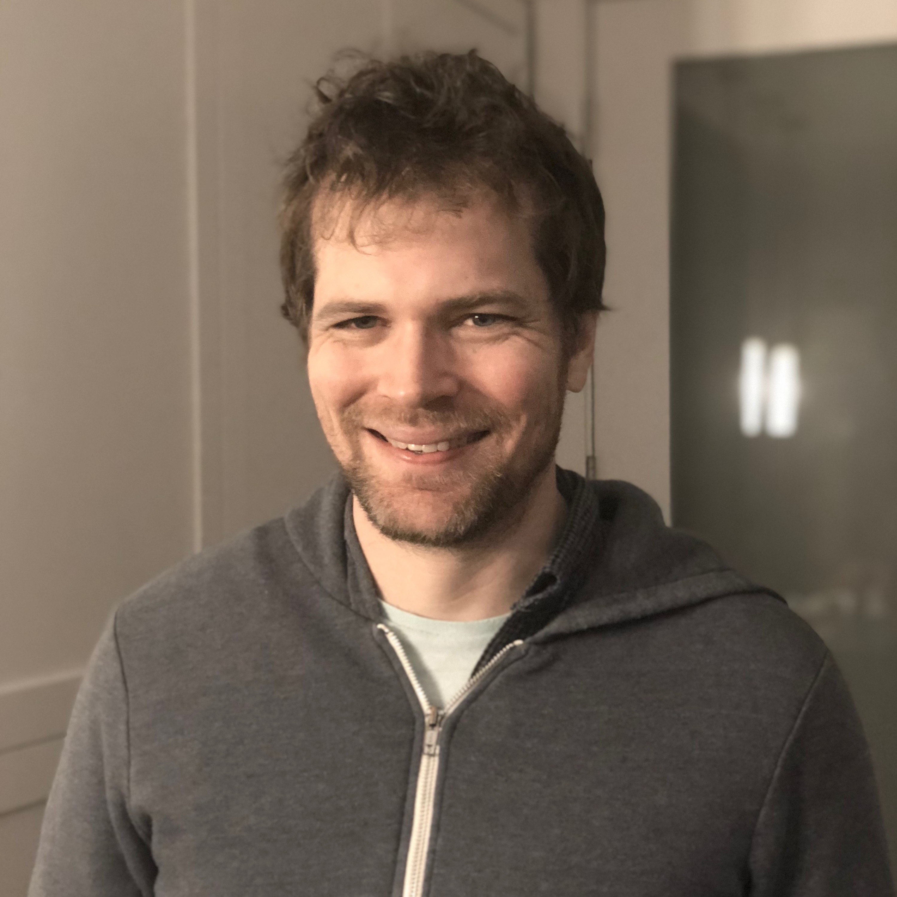 Recent photo of Charles Duplain Cheever